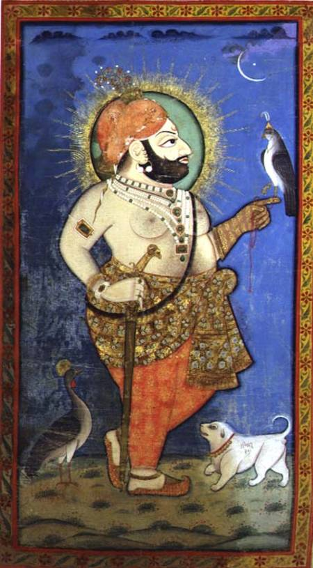 Maharana Bhim Singh of Mewar (r. 1778-1828) with a Hawk